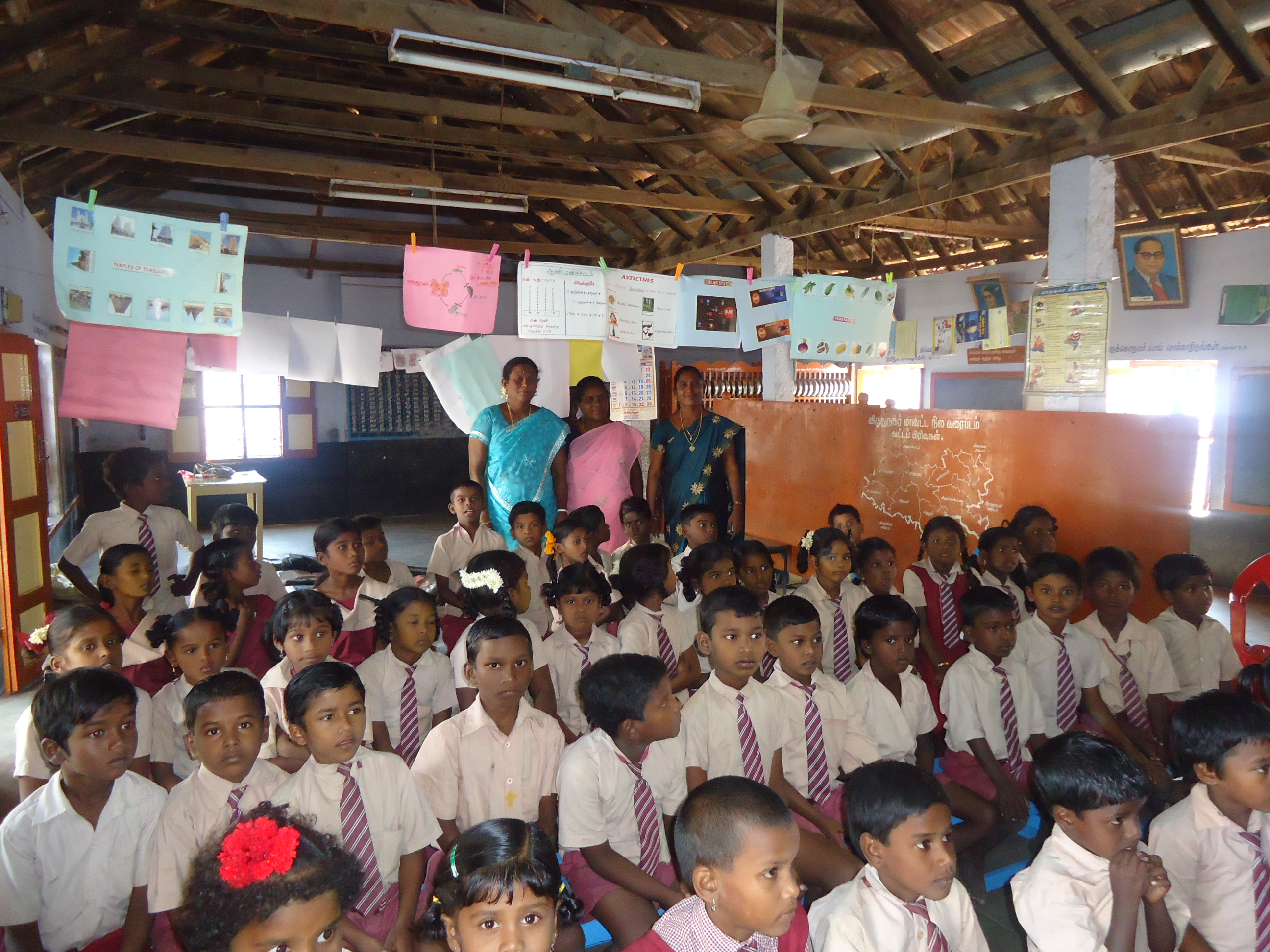 S B M PRIMARY SCHOOL..